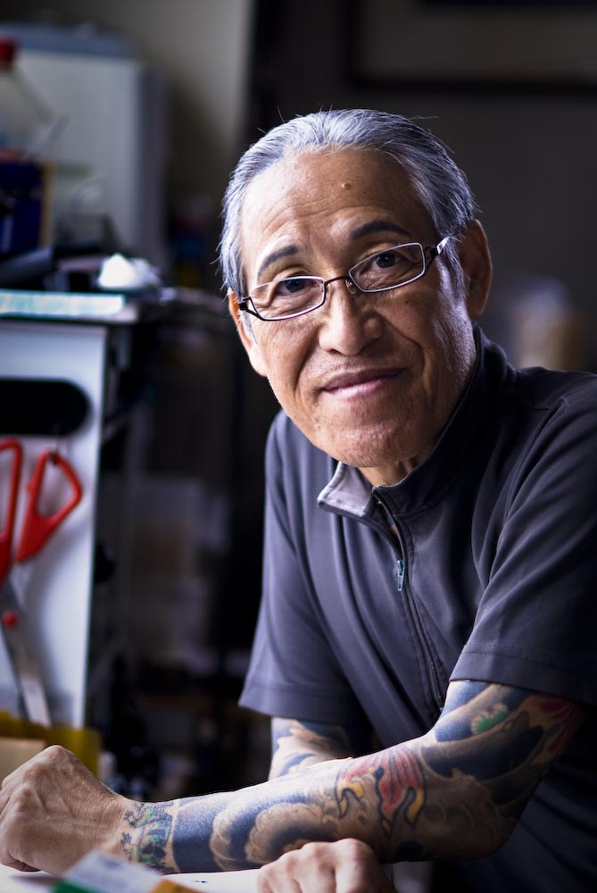 Horiyoshi the third